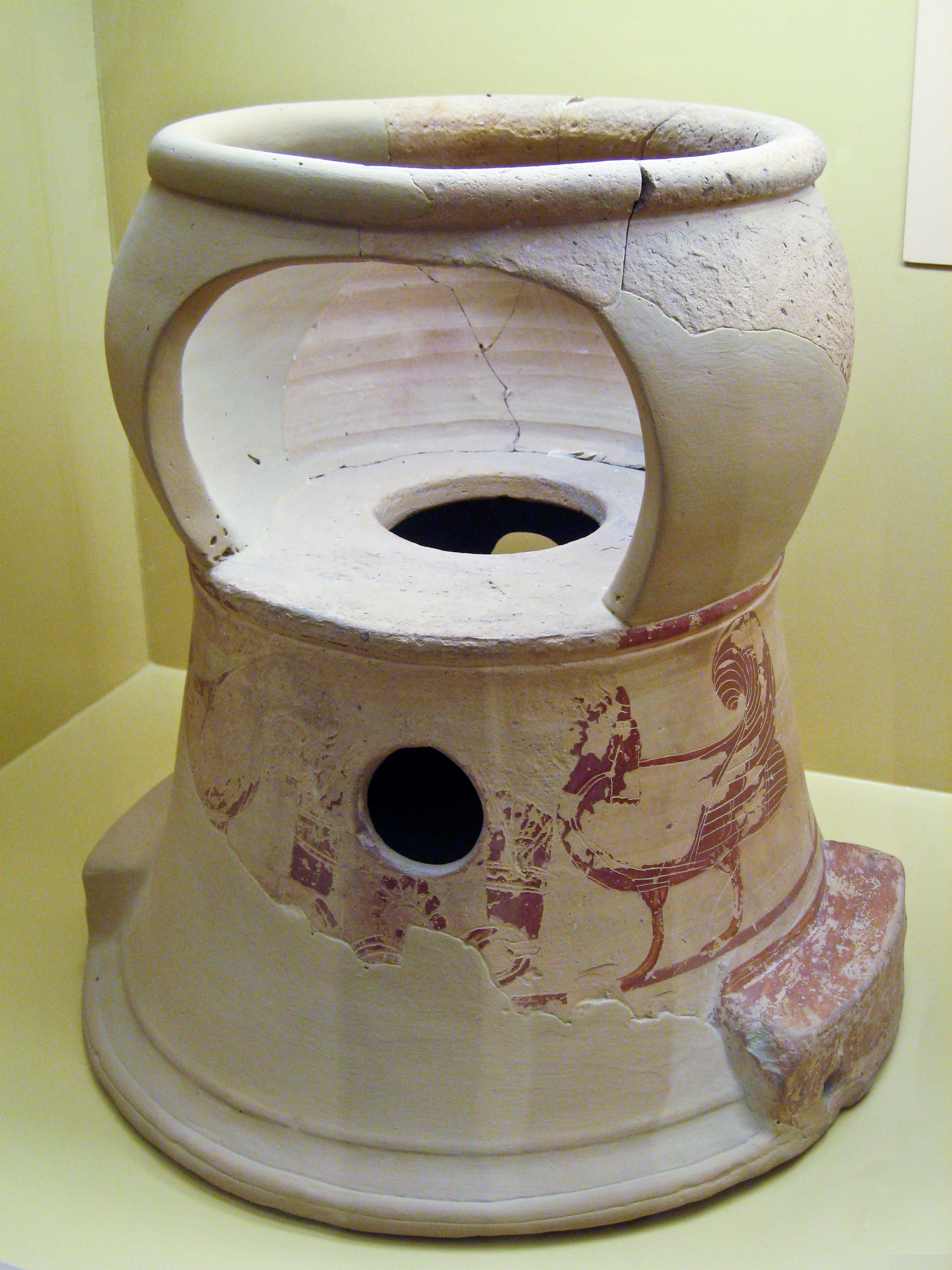 Child's Commode - Child seat and chamber pot, early 6th century B.C., Agora Museum Athens